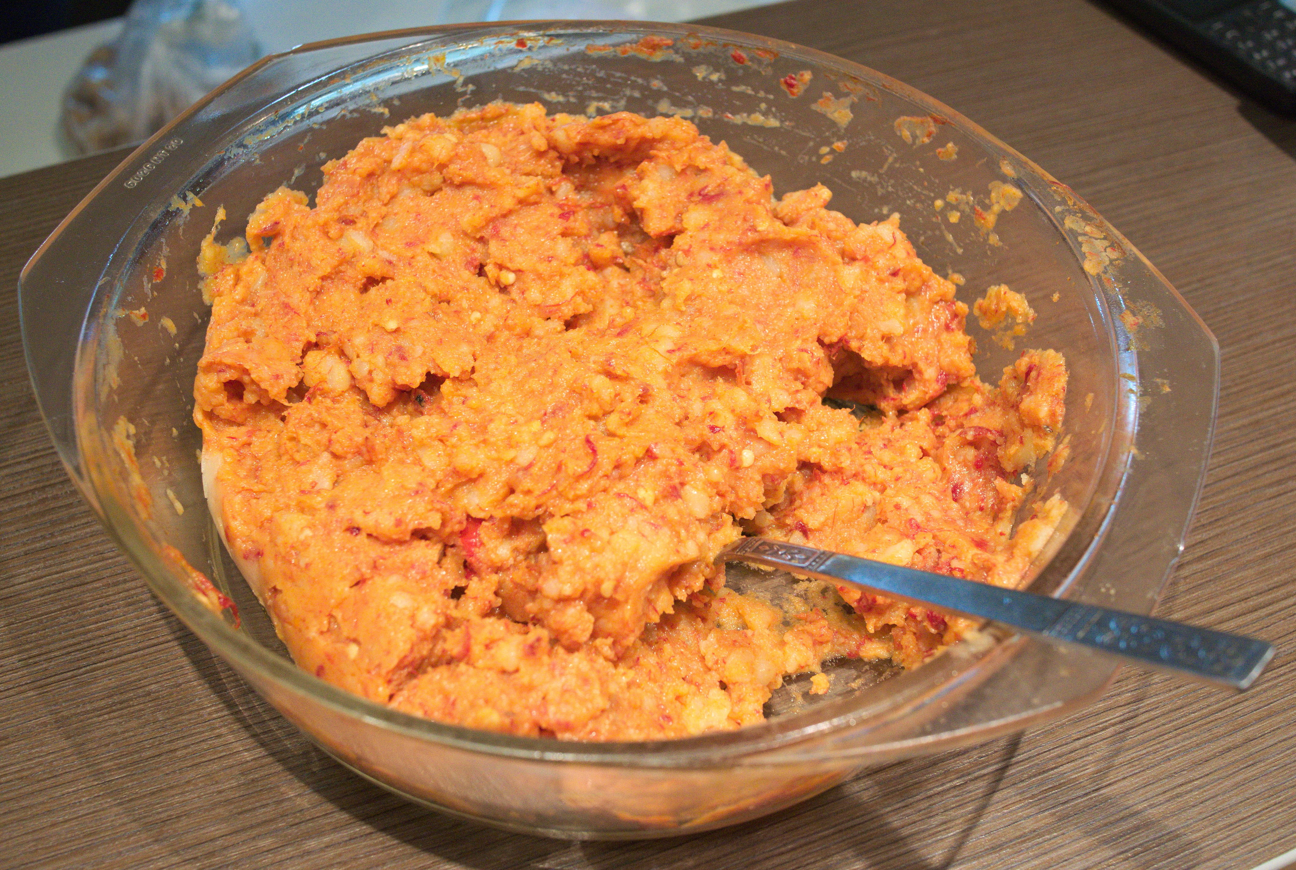 Makalo salad, Macedonian cuisine. Српски (ћирилица): Макало; салат у македонској кухињи. (Куван компир са љутом сувом пиперком, маслине, сол)